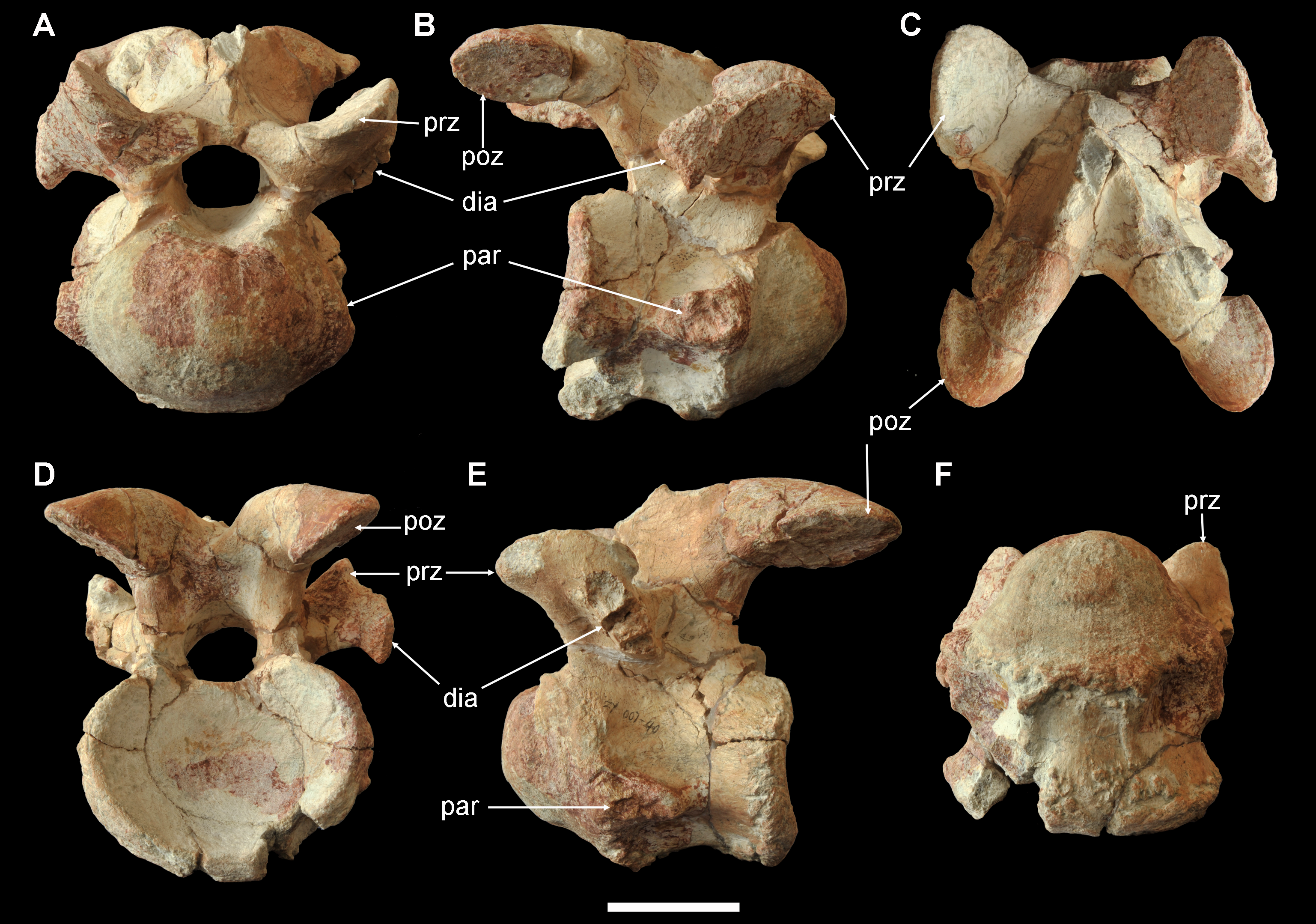 Cervical vertebra of Yunganglong datongensis (SXMG V 00001). (A)-Cranial view. (B)-Right lateral view. (C)-Dorsal view. (D)-Caudal view. (E)-Left lateral view. (F)-Ventral view. Abbreviations: dia, diapophysis; par, parapophysis; poz, postzygapophysis; prz, prezygapophysis. Scale bar = 6 cm.